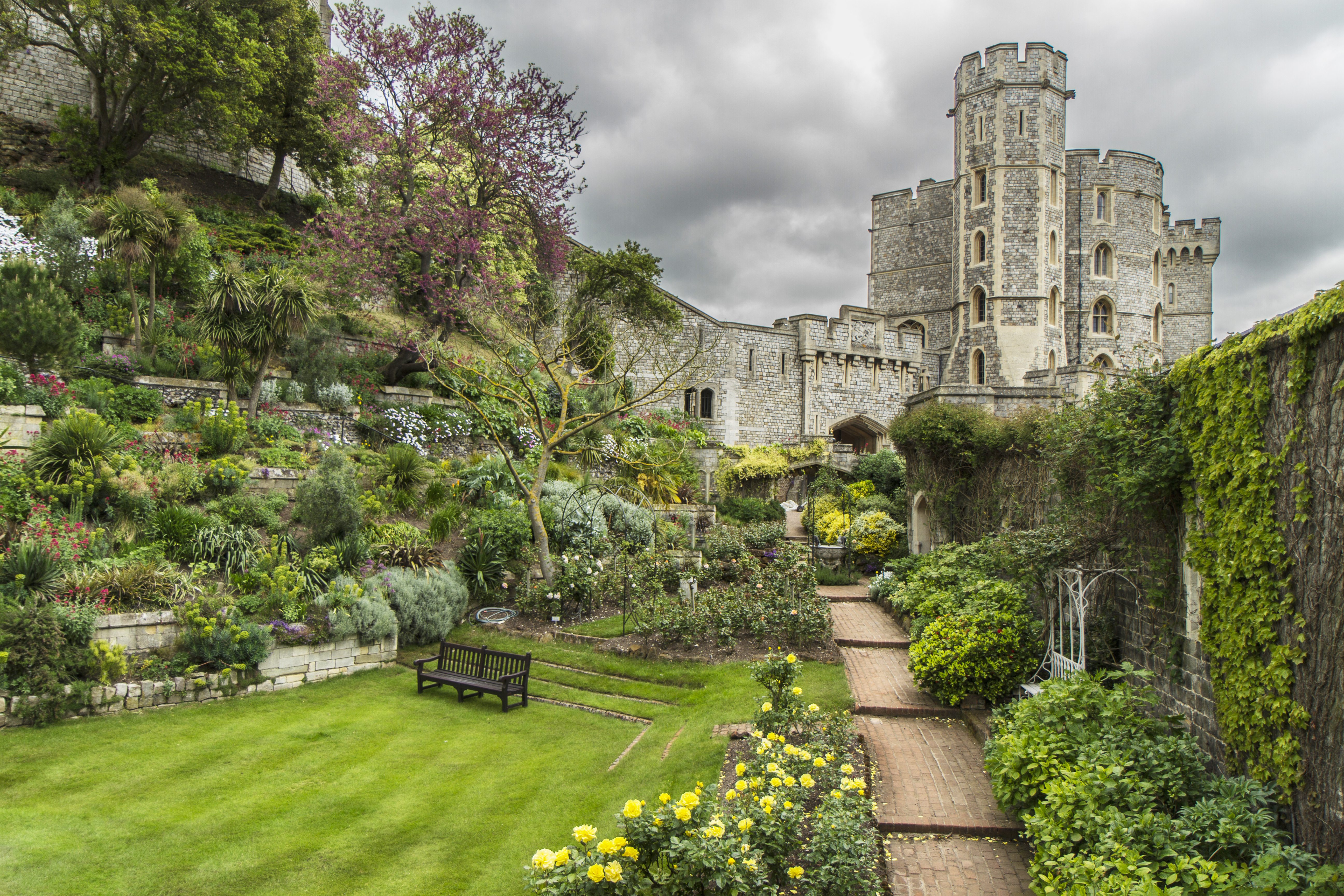 Windsor Castle and park